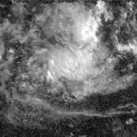 The 1973 Flores cyclone imaged by the POES NOAA-2 satellite on April 28, 1973.